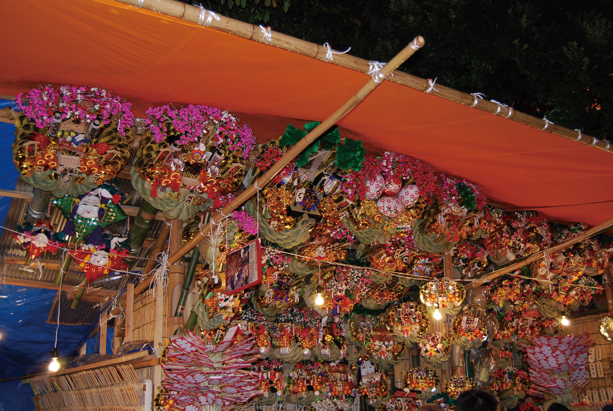 Cock Festival at Hanazono Shrine in Japan